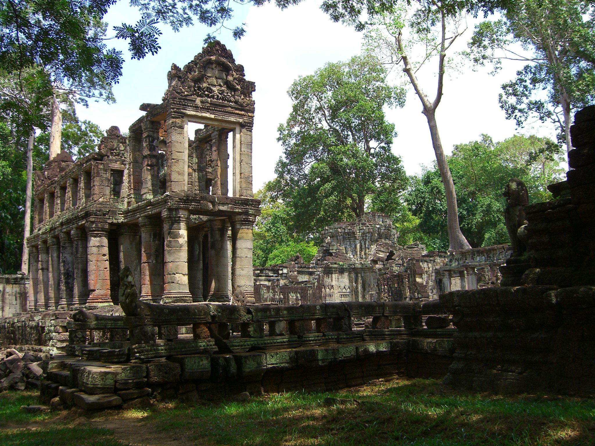 Yasodharapura